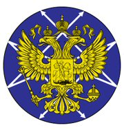 Logo of the Russian Federation's Ministry of Communications and Mass Media